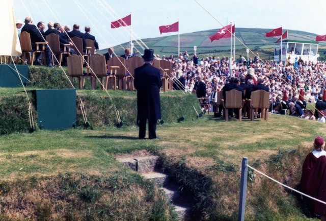 Tynwald Day (Midsummer Court) July 1983